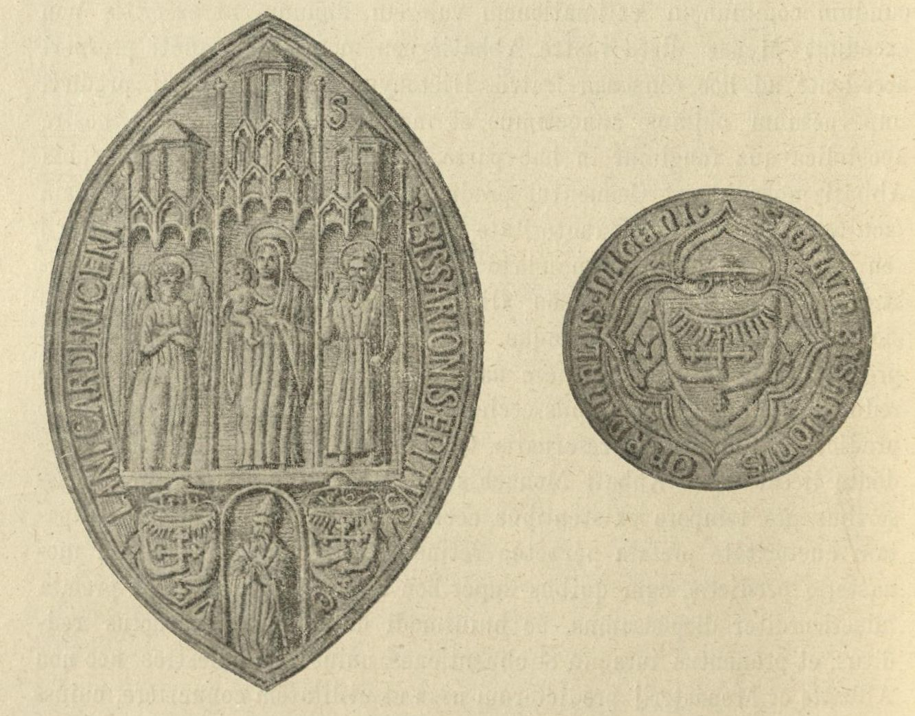 Cardinal Bessarion’s seals at the time of his legation at Bologna. The bigger seal shows the Blessed Virgin (middle) under a baldachin with an angel (left) and John the Baptist (right). The smaller seal shows Bessarion’s coat of arms; the two arms holding the cross symbolize the Western and the Eastern Church. The seals are in the Archivio di Stato di Reggio Emilia at Reggio Emilia.